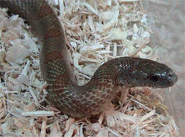 Photographer: User:Dawson